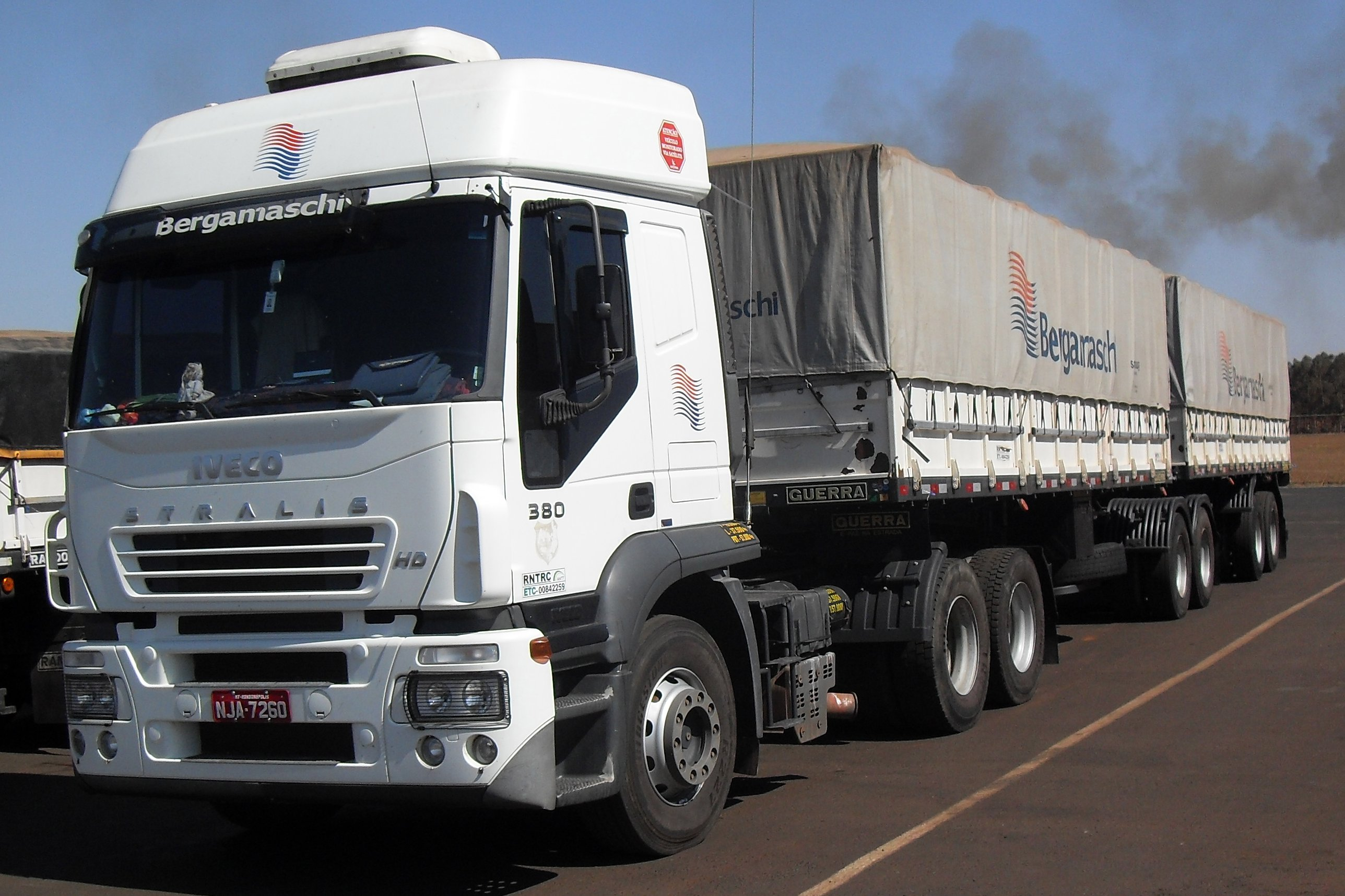 Iveco Stralis truck with two trailers in Brazil.